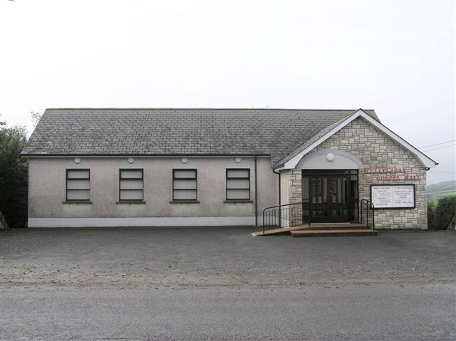 Tullylagan Gospel Hall It is located to the east of Sandholes.